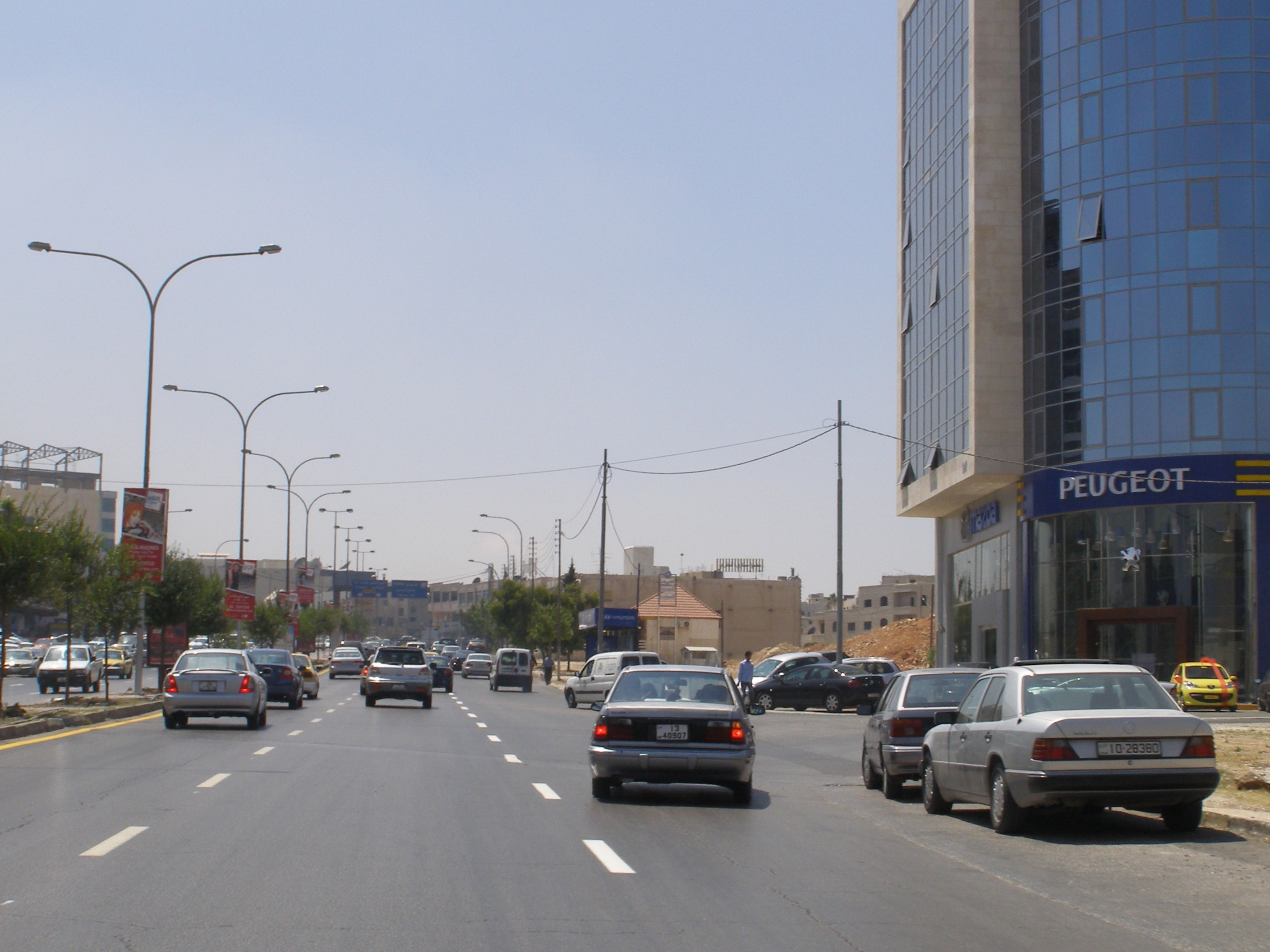 Mecca Street Amman